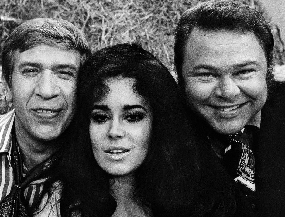 Photo of Buck Owens, Lisa Todd and Roy Clark from the television program Hee Haw.